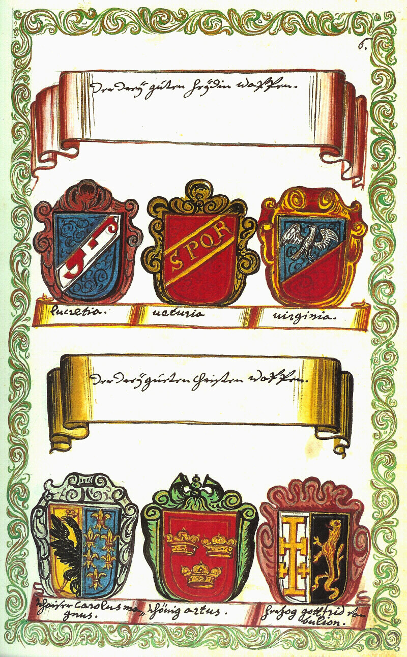 Page 6 of the Opus insignium armorumque book